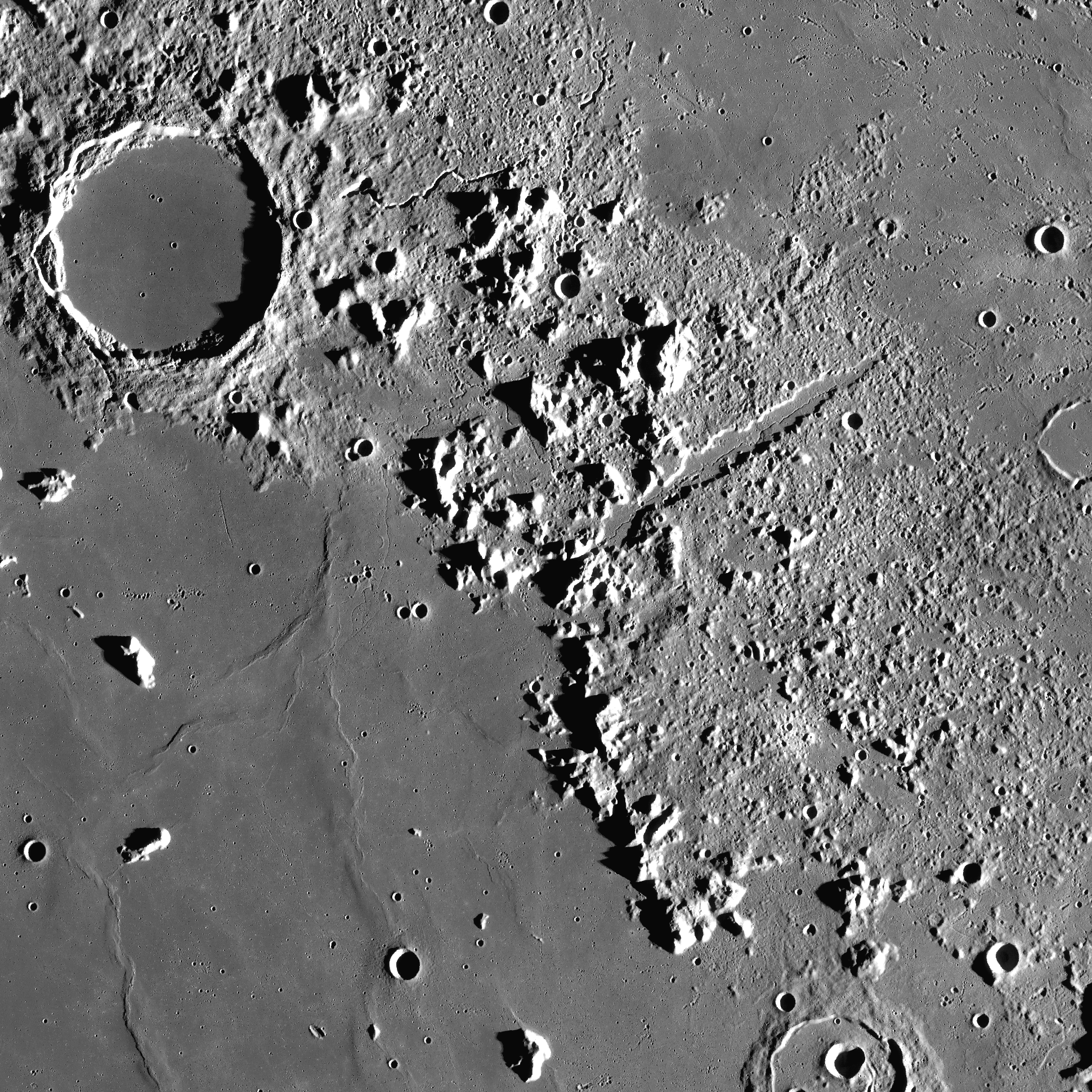 Montes Alpes on the Moon. Mosaic of photos by Lunar Reconnaissance Orbiter, made with Wide Angle Camera. Size of the image is 460×460 km, north is up.